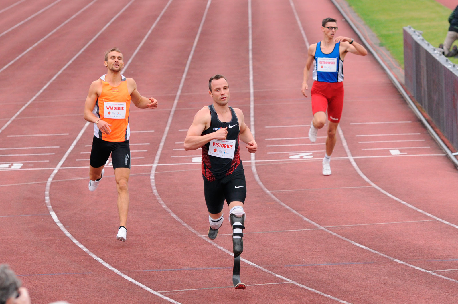 South African runner Oscar Pistorius at the start of the 2nd Kamila Skolimowska Memorial in Warsaw, Poland.